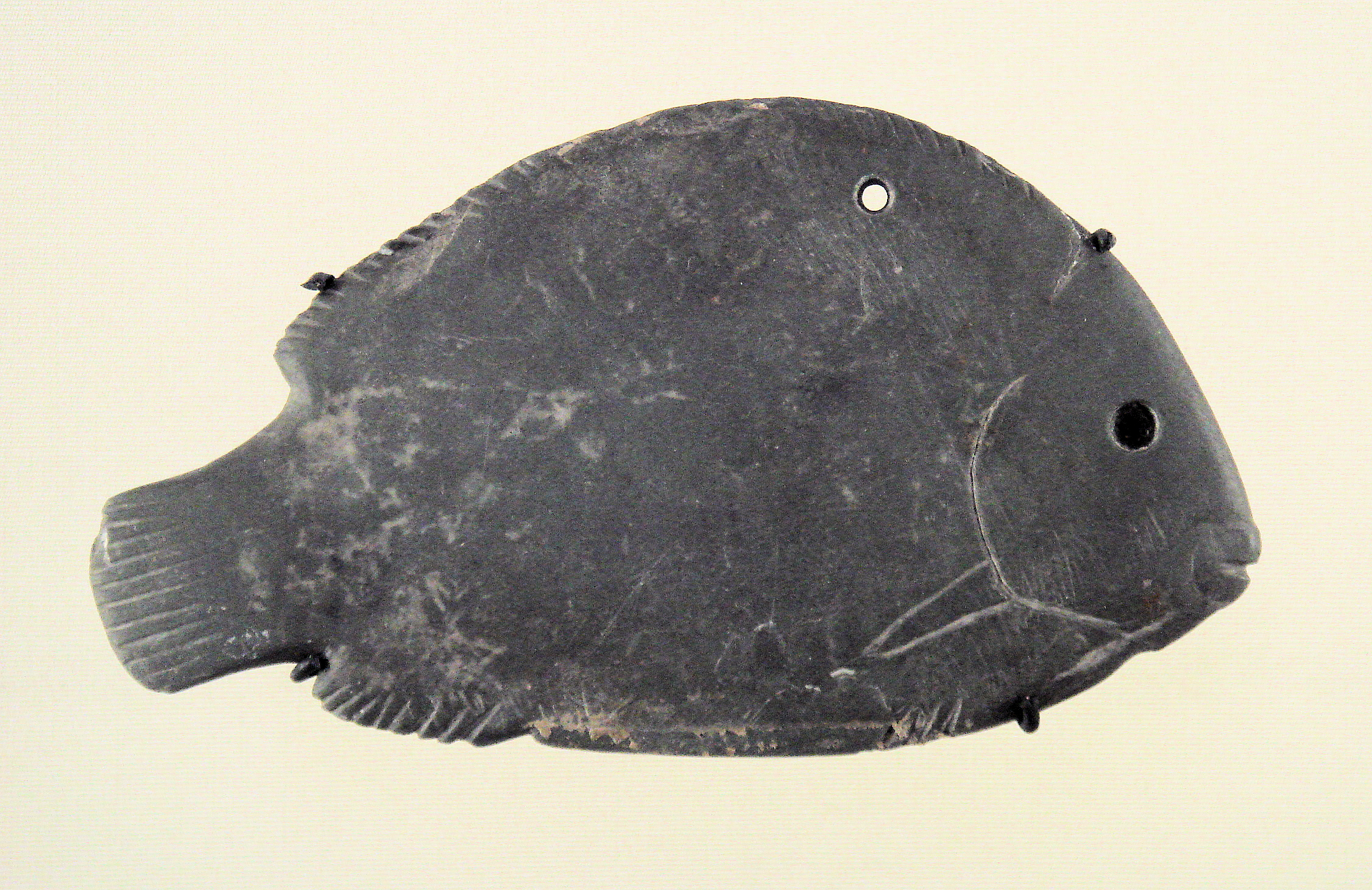 Naqada III Egyptian Cosmetic Palette, end of 4th millenium, found in Ascalon, Louvre Museum AO 5359